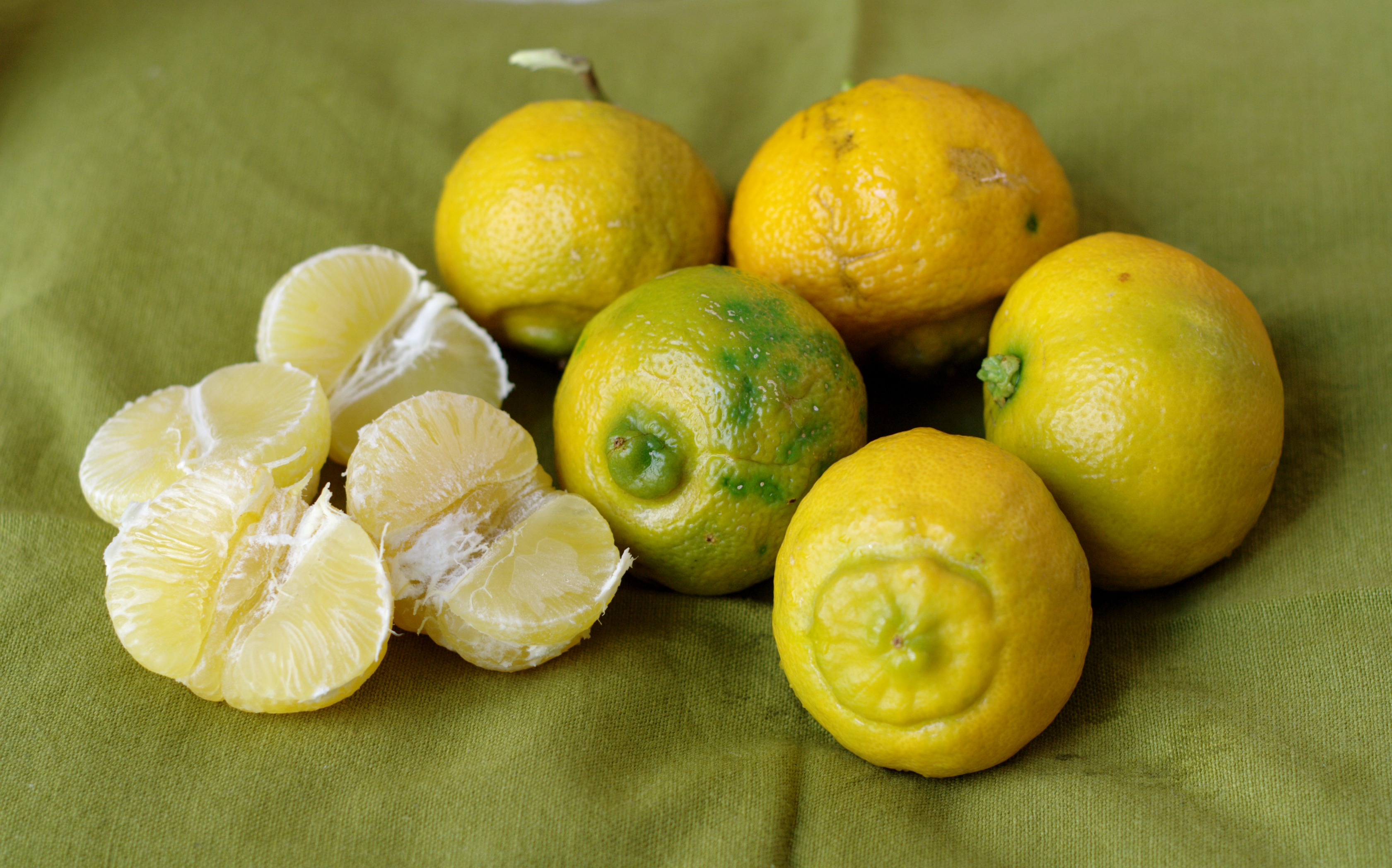 Limo, neapolitan variety of citrus, similar to bergamot orange